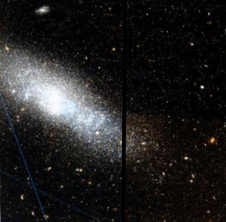 UGC 8331 - Hubble Space Telescope - The Dynamic State of the Dwarf Galaxy Rich Canes Venatici I Region - HST Proposal 10905